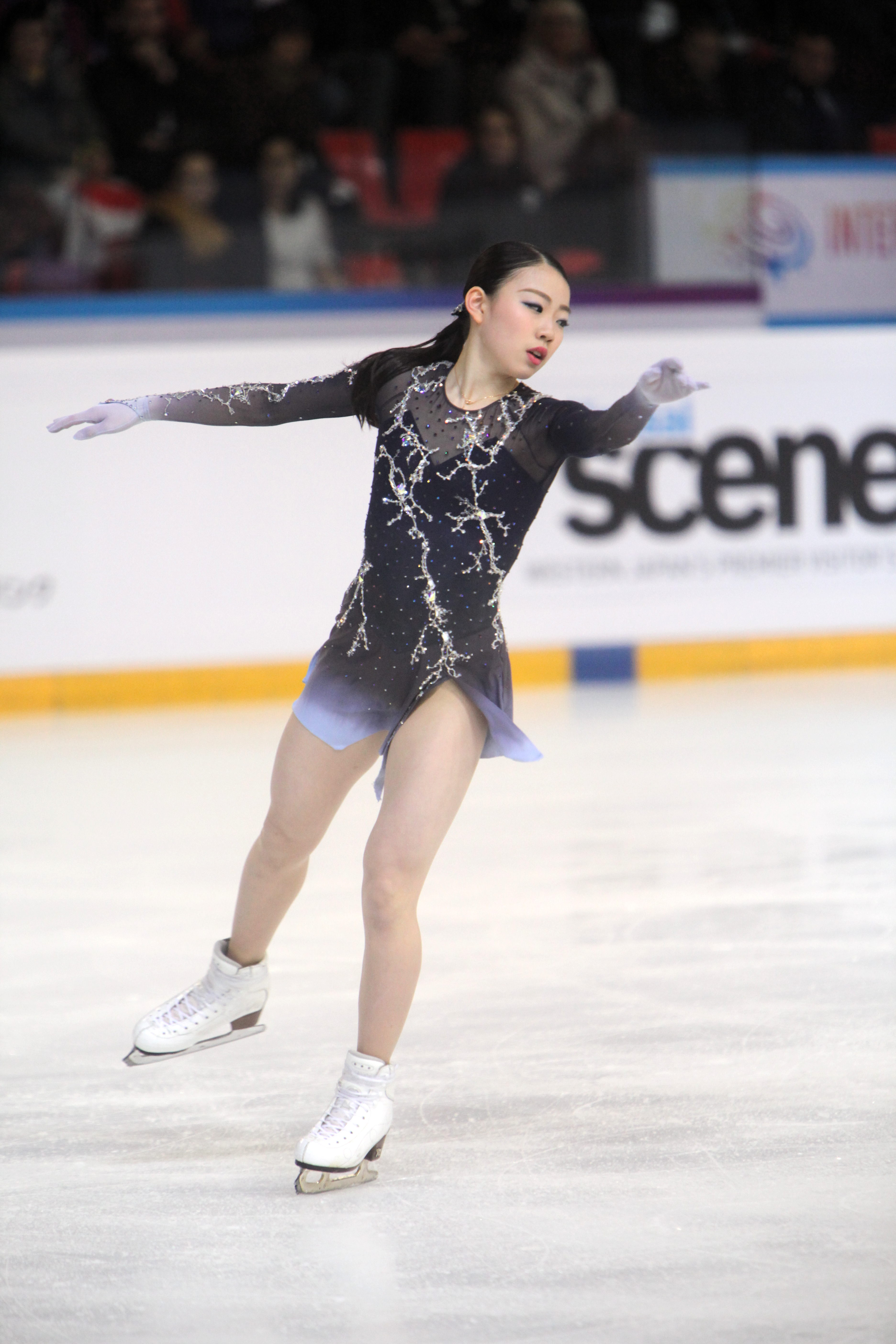 Rika Kihira during the Ladies Free Skating at the Internationaux de France de Patinage 2018.